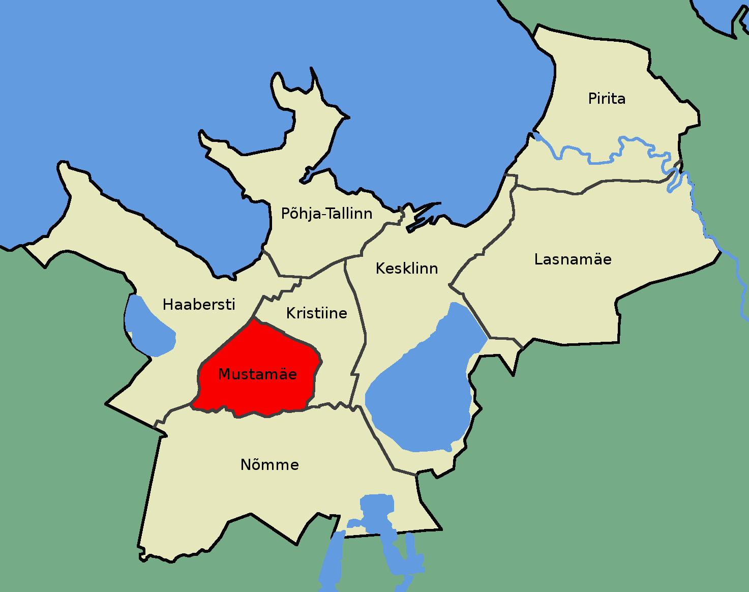 Tallinn (Estonia), the city district of Mustamäe, with legend